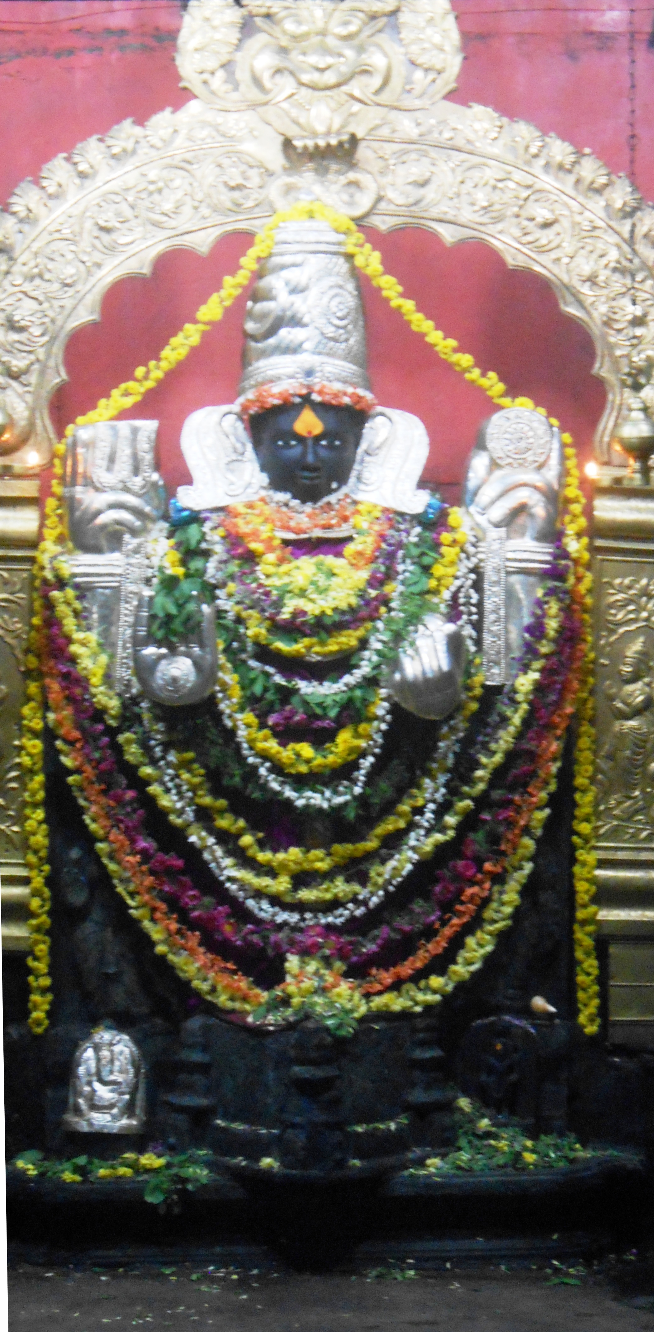 Statue of Harihara from Harihareshwara temple, Harihar, Karnataka, India.